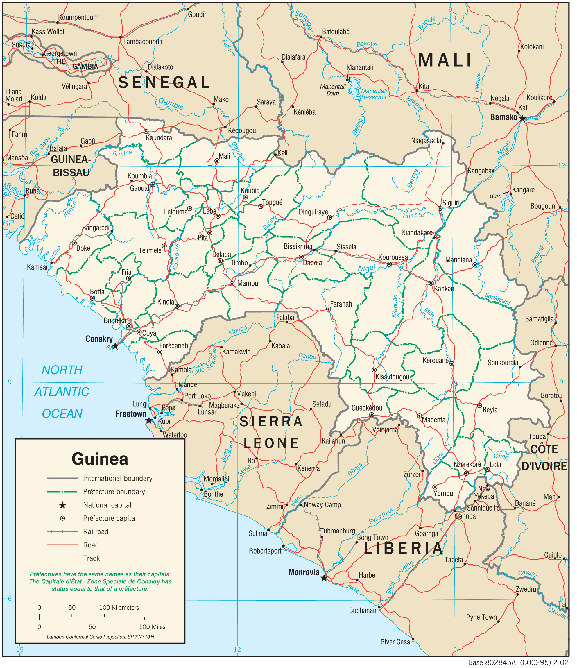 Transport system in Guinea, 2002.